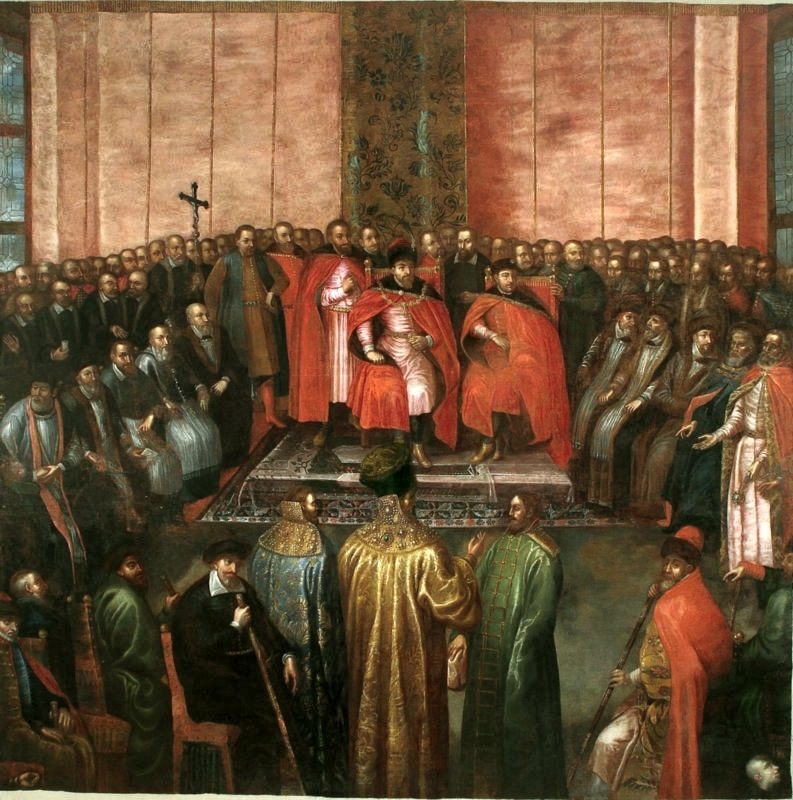 Stanisław Żółkiewski presenting to the King Sigismund III at the Diet in Warsaw in 1611 captured Shuysky brothers.